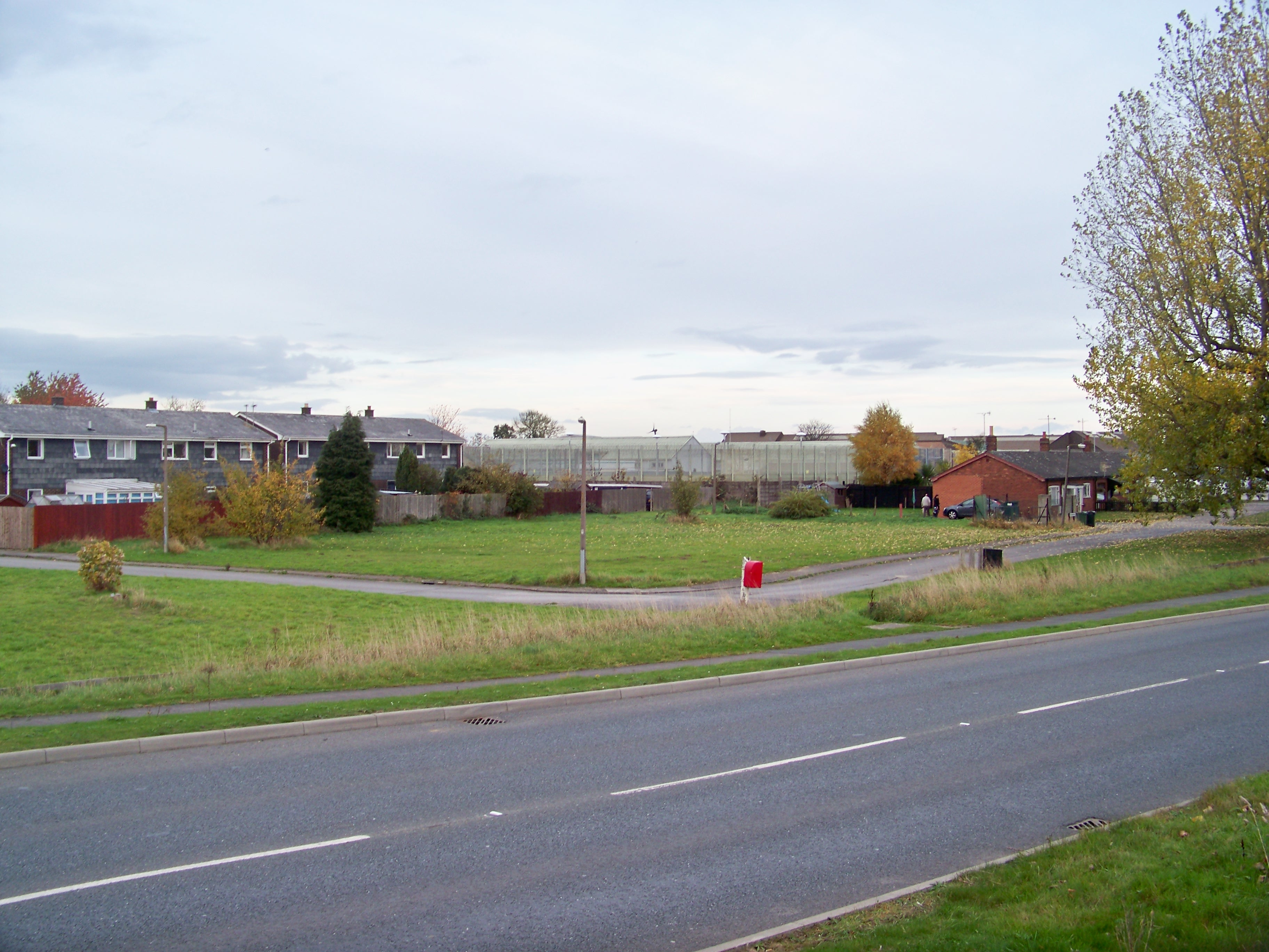 Wetherby Young Offenders Institution taken from the opposite side of the B1224 York Road. Prison housing can be seen adjacent. There are many prison houses in Wetherby situated off the York Road. Taken on the afternoon of Saturday the 30th of October 2010.